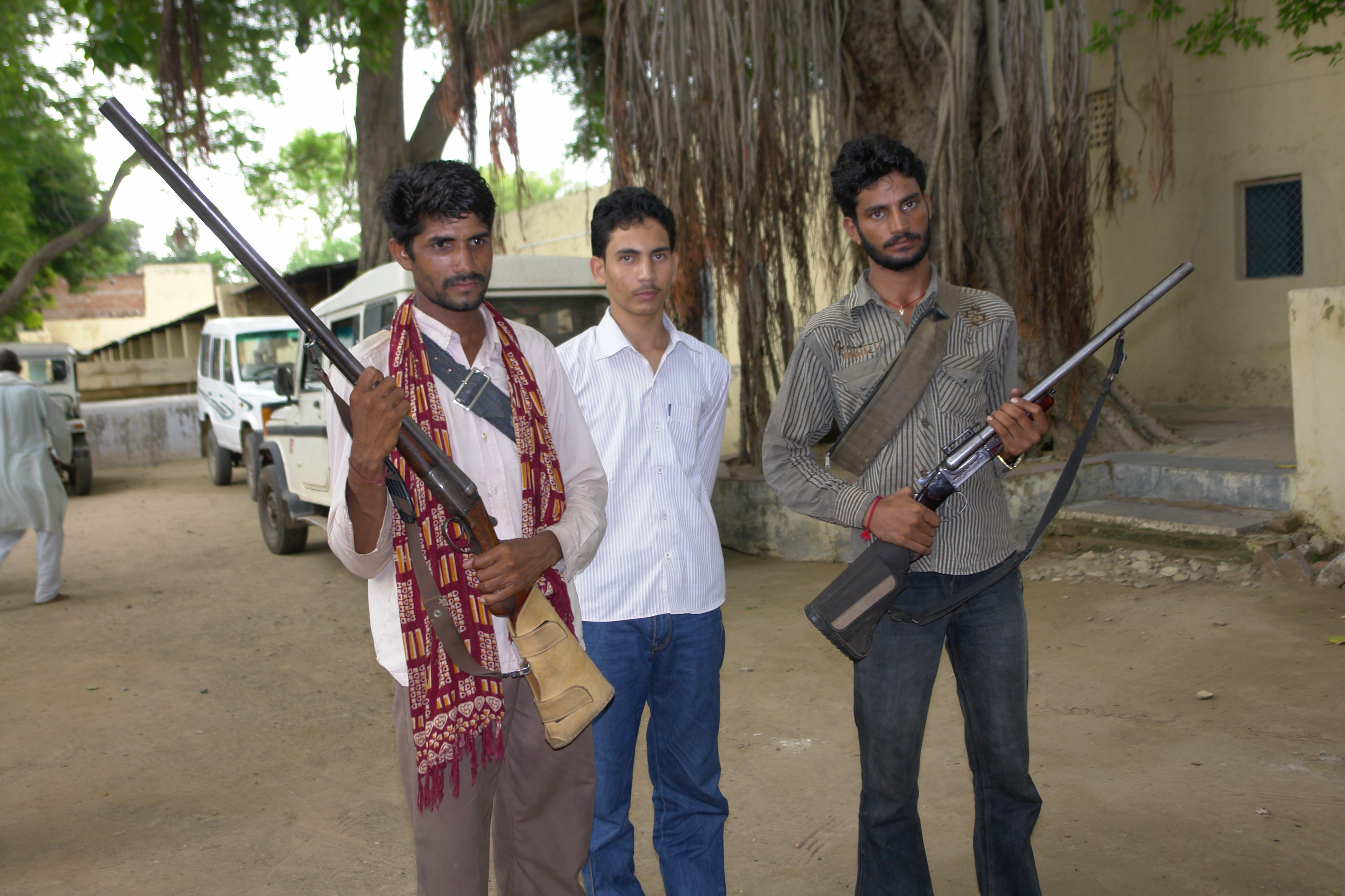 Men with guns, Jaura, Chambal, M.P., India. The area is notorious for people carrying arms.